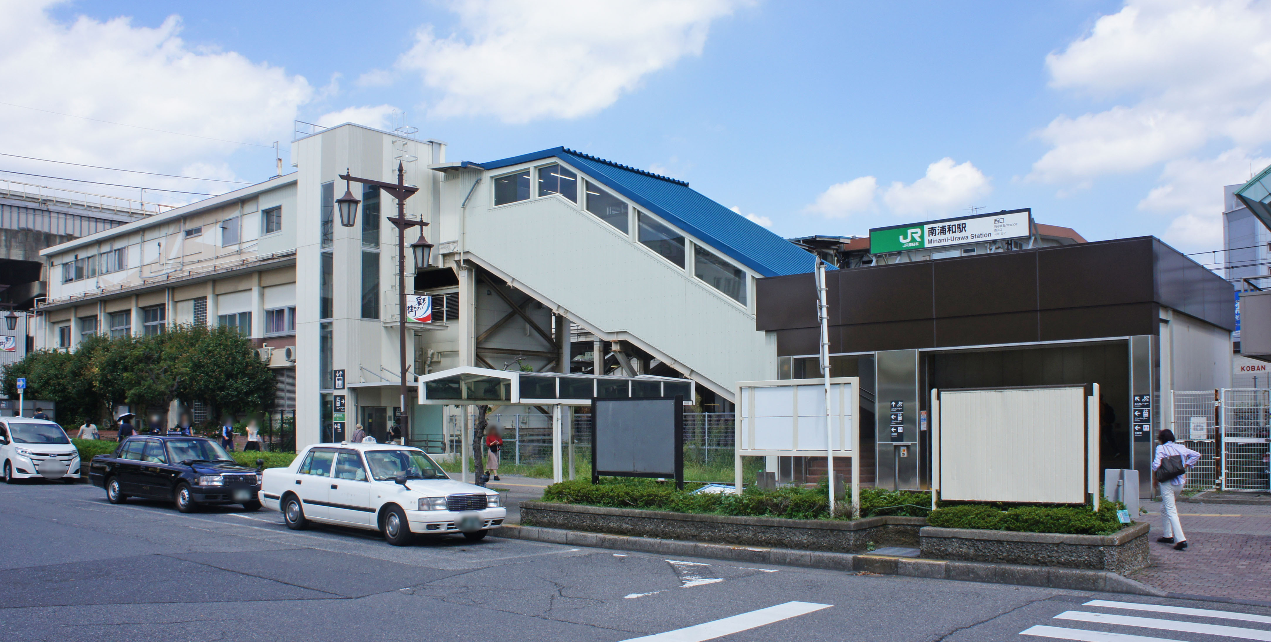 West Exit of JR Minami-Urawa Station